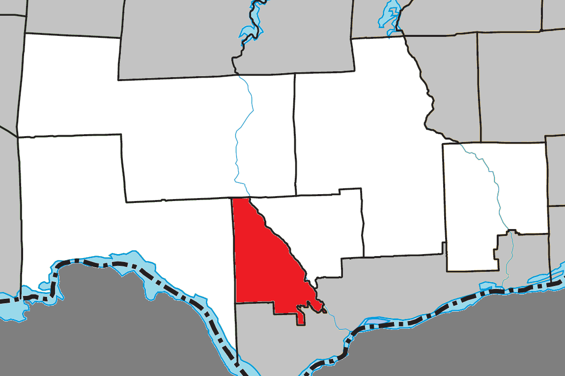 Location of Chelsea, Quebec within Les Collines-de-l'Outaouais Regional County Municipality.